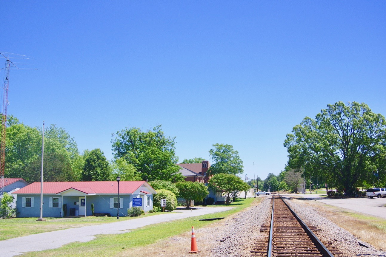 View along the railroad tracks in Little Mountain, South Carolina, United States; Church Street is on the left.